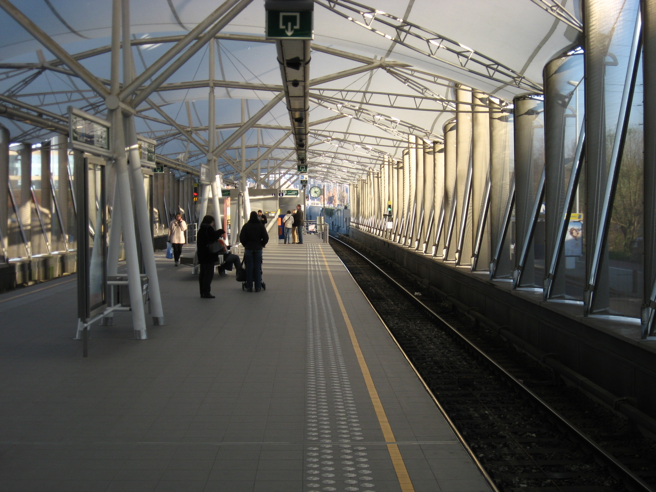 Metro station Erasmus with canvas architecture